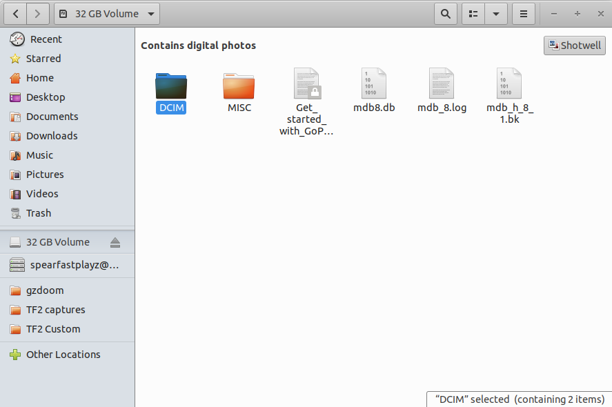 Captured on Ubuntu 19